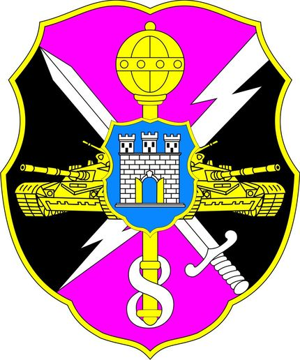 Shoulder Sleeve Insignia of the Ukrainian Army 8th Army Corps Command